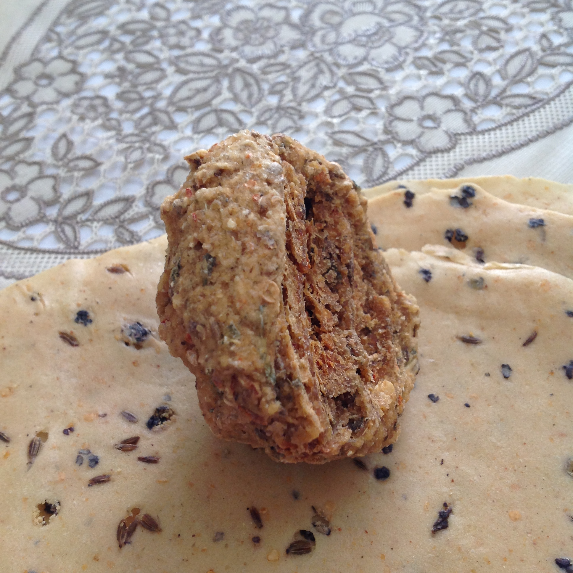 It is typical food item